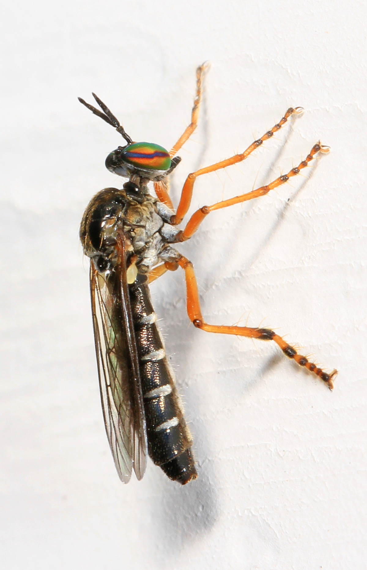 Robber Fly - Taracticus octopunctatus, Woodbridge, Virginia. Predator # 2 - This Robber Fly is smaller than the mosquito I just posted. It eats just about anything it can catch, but at least I'm not part of its food chain. HFDF!